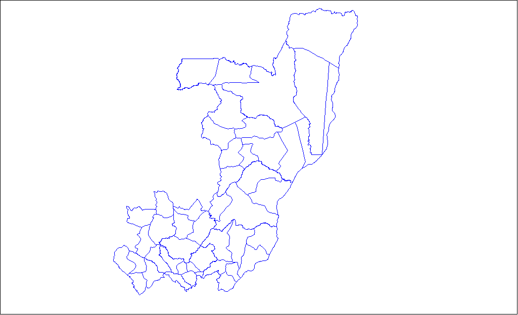 This map has been uploaded by Electionworld from to enable the Wikimedia Atlas of the World . Original uploader to was Rarelibra, known as Rarelibra at . Electionworld is not the creator of this map. Licensing information is below. Map of the districts of the Republic of the Congo. Created by Rarelibra 14:04, 31 March 2006 (UTC) for public domain use. Created using MapInfo Professional v7.5 and various mapping resources.